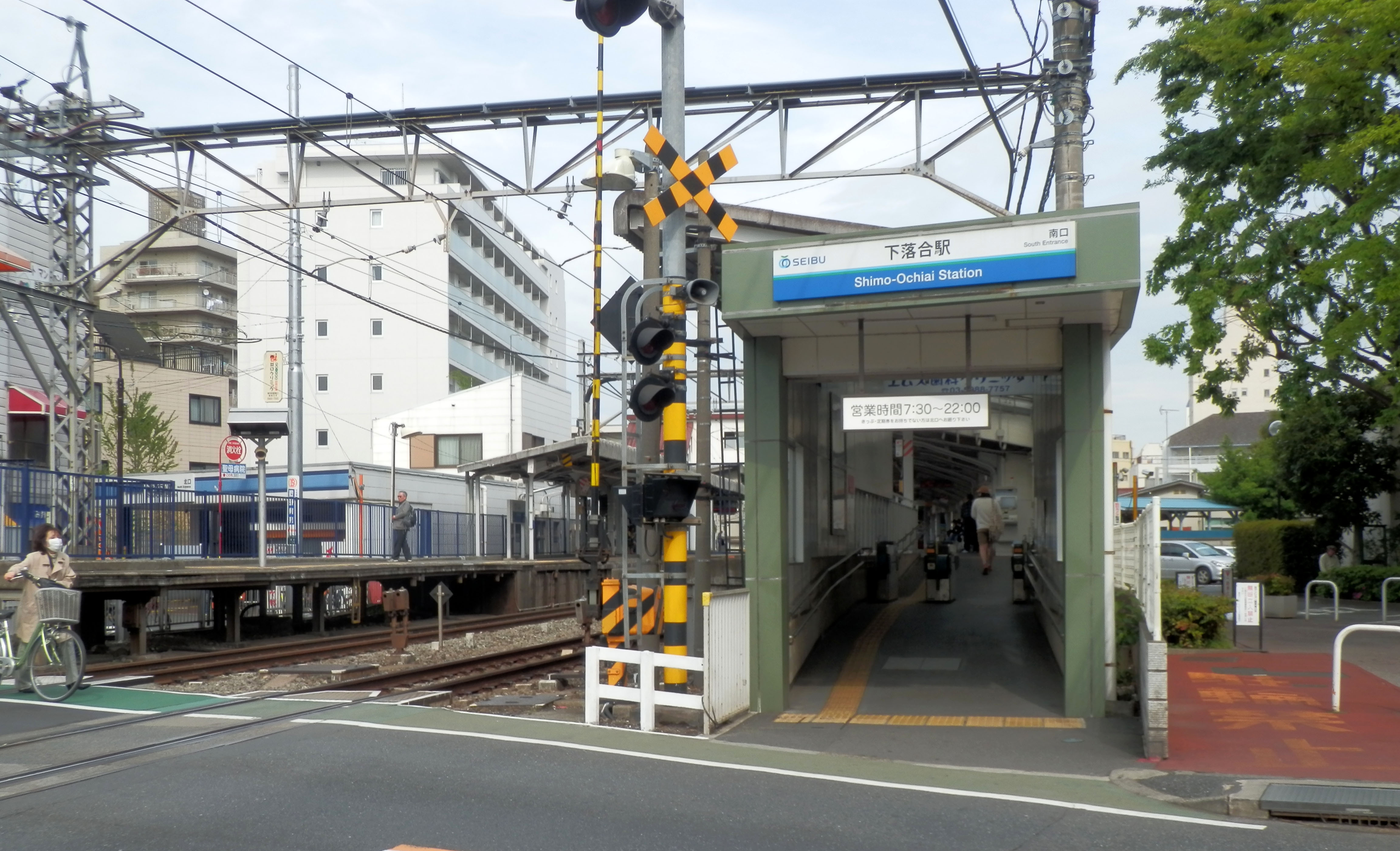 Shimo-Ochiai station (Seibu Shinjuku Line in Tokyo, Japan) south entrance